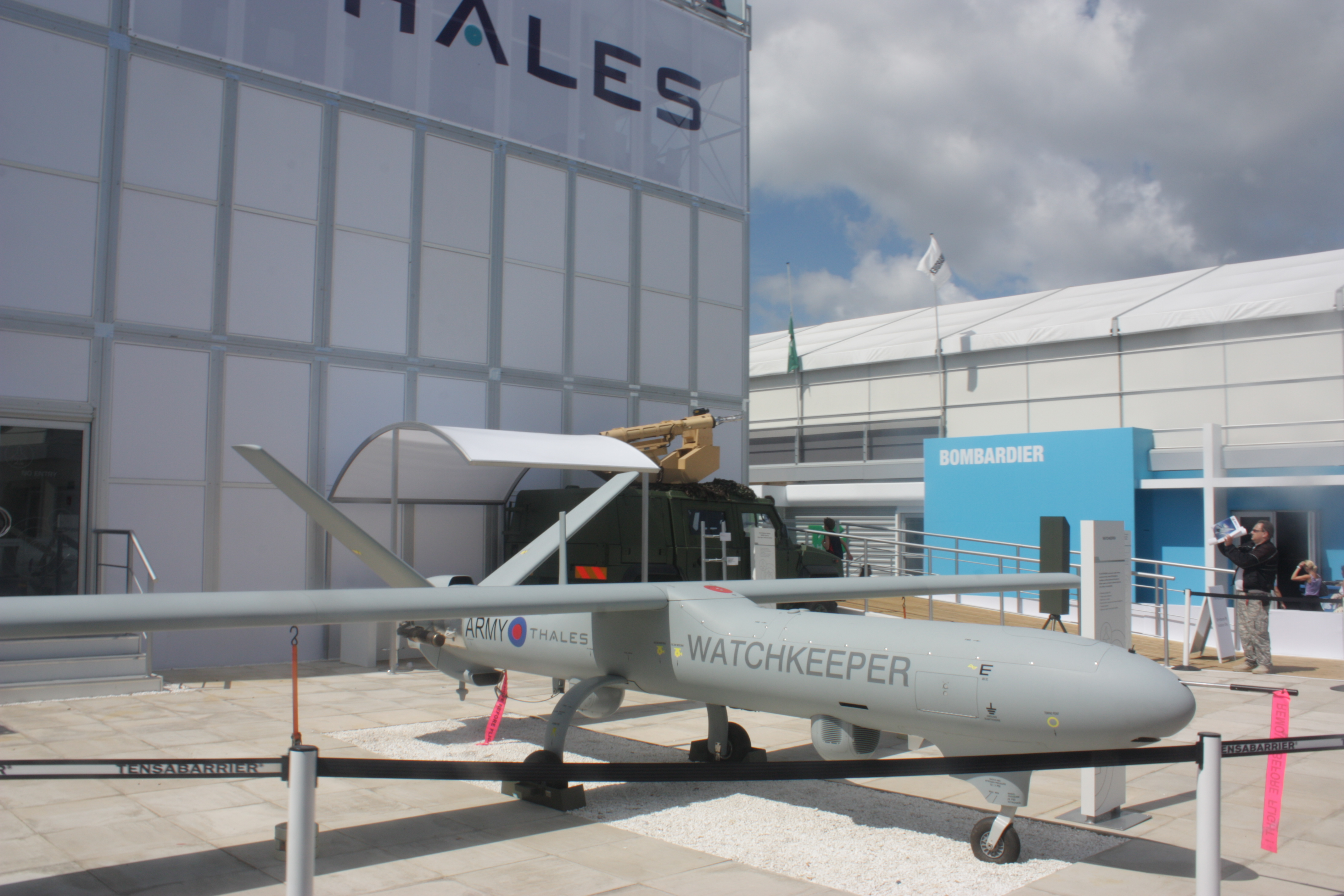 Thales Watchkeeper WK450 unmanned aerial military aircraft